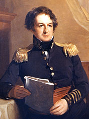 leader of the US Corps of Topographical engineers.